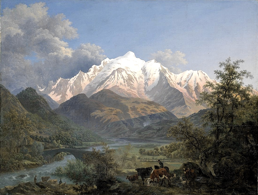 View of the Mont-Blanc from Sallanches at dusk